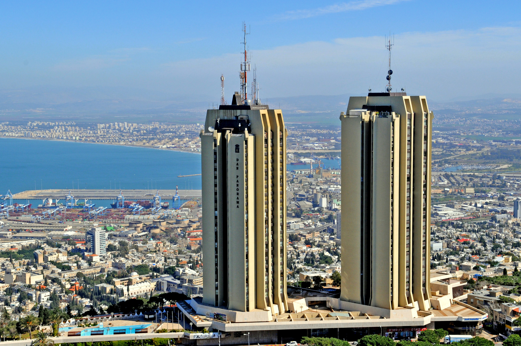 Panorama Towers on Mount Carmel